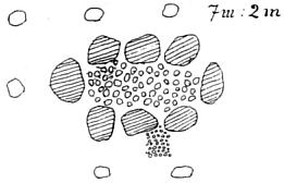 Megalithic tomb Radenbeck 1